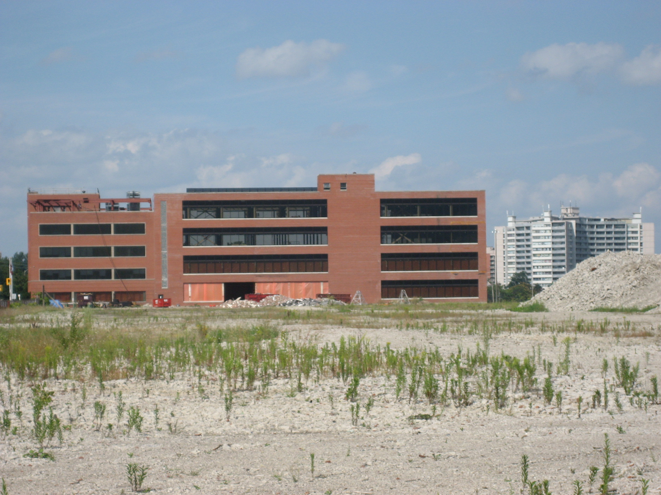 Future site of the McMaster Innovation Park, Aberdeen Avenue West, Hamilton, Canada.